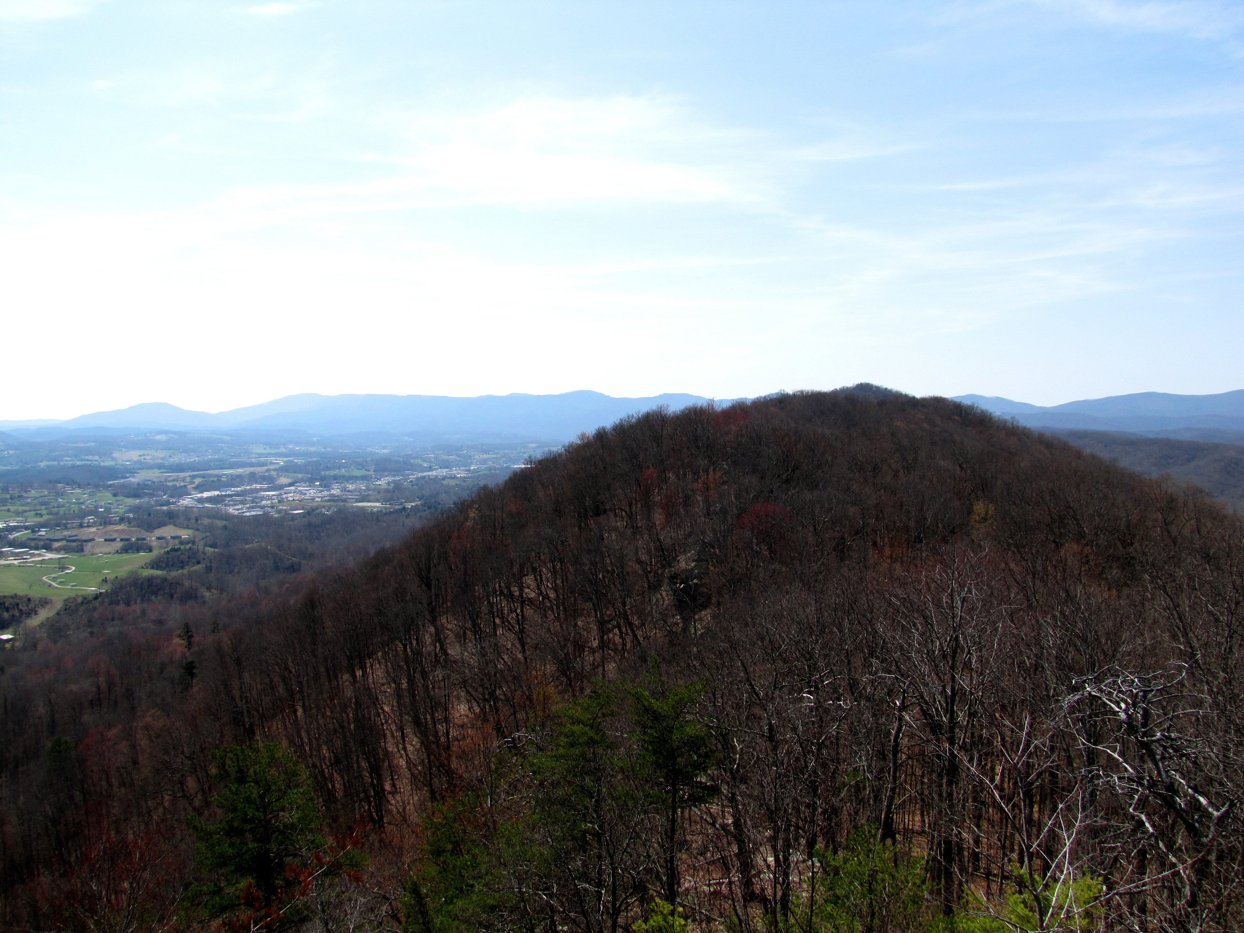 View west from a rock ledge along the Cumberland Trail, 2.5 miles west of the Tank Springs access in Campbell County, Tennessee, USA. A knob of Cumberland Mountain is in the foreground on the right. Cross Mountain spans most of the horizon in the distance. Approximate coordinates: N 36.36719, W 84.15987, looking SW.